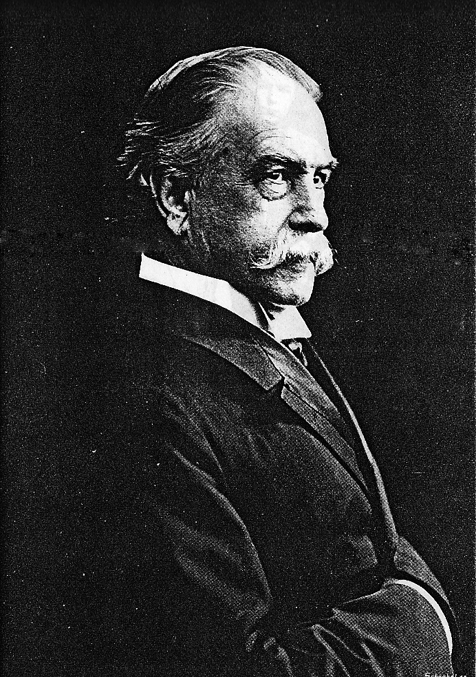 Portrait of Adolph Mignot